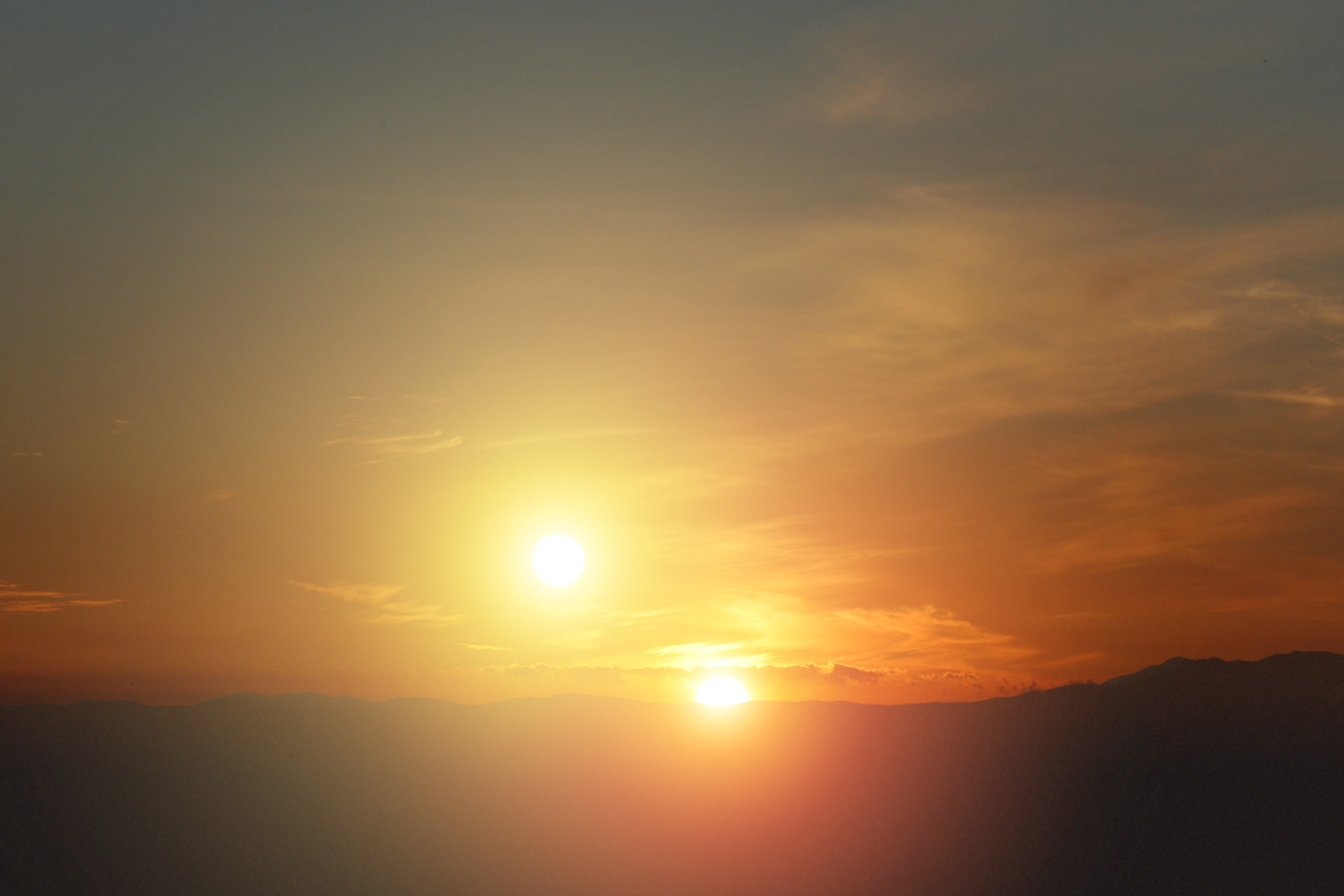 Our solitary sunsets here on Earth might not be all that common in the grand scheme of things. New observations from NASA's Spitzer Space Telescope have revealed that mature planetary systems -- dusty disks of asteroids, comets and possibly planets --are more frequent around close-knit twin, or binary, stars than single stars like our sun. That means sunsets like the one portrayed in this artist's photo concept, and more famously in the movie "Star Wars," might be quite commonplace in the universe. Binary and multiple-star systems are about twice as abundant as single-star systems in our galaxy, and, in theory, other galaxies. In a typical binary system, two stars of roughly similar masses twirl around each other like pair-figure skaters. In some systems, the two stars are very far apart and barely interact with each other. In other cases, the stellar twins are intricately linked, whipping around each other quickly due to the force of gravity